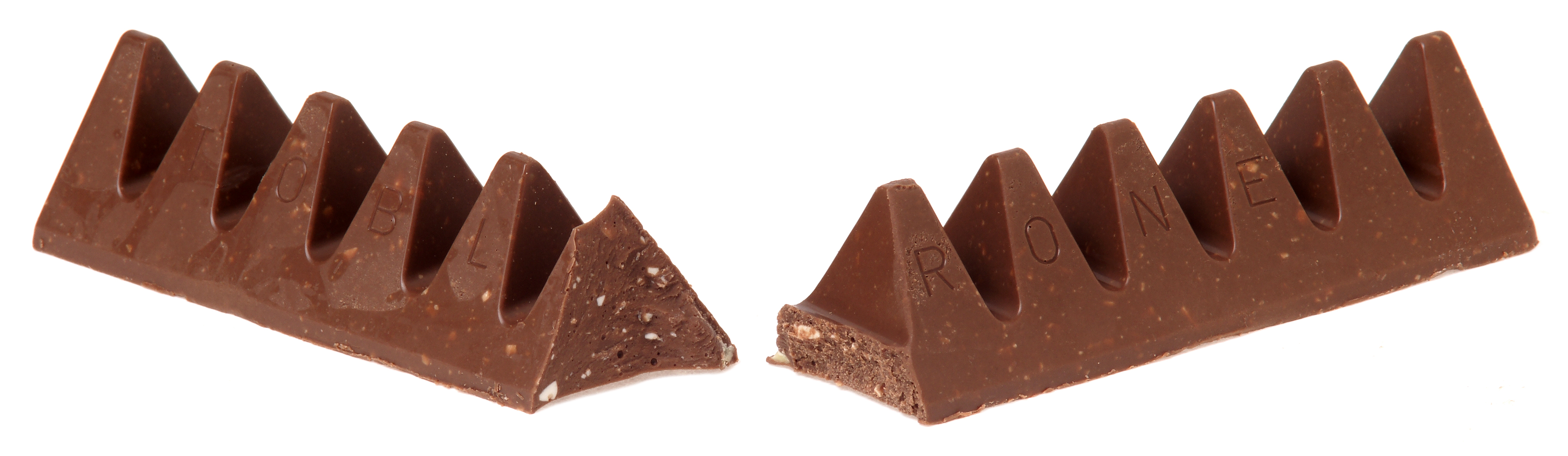 A Toblerone, A Swiss-made milk chocolate bar with honey and almond nougat, split in half. This bar is the old design, which had narrow valleys.